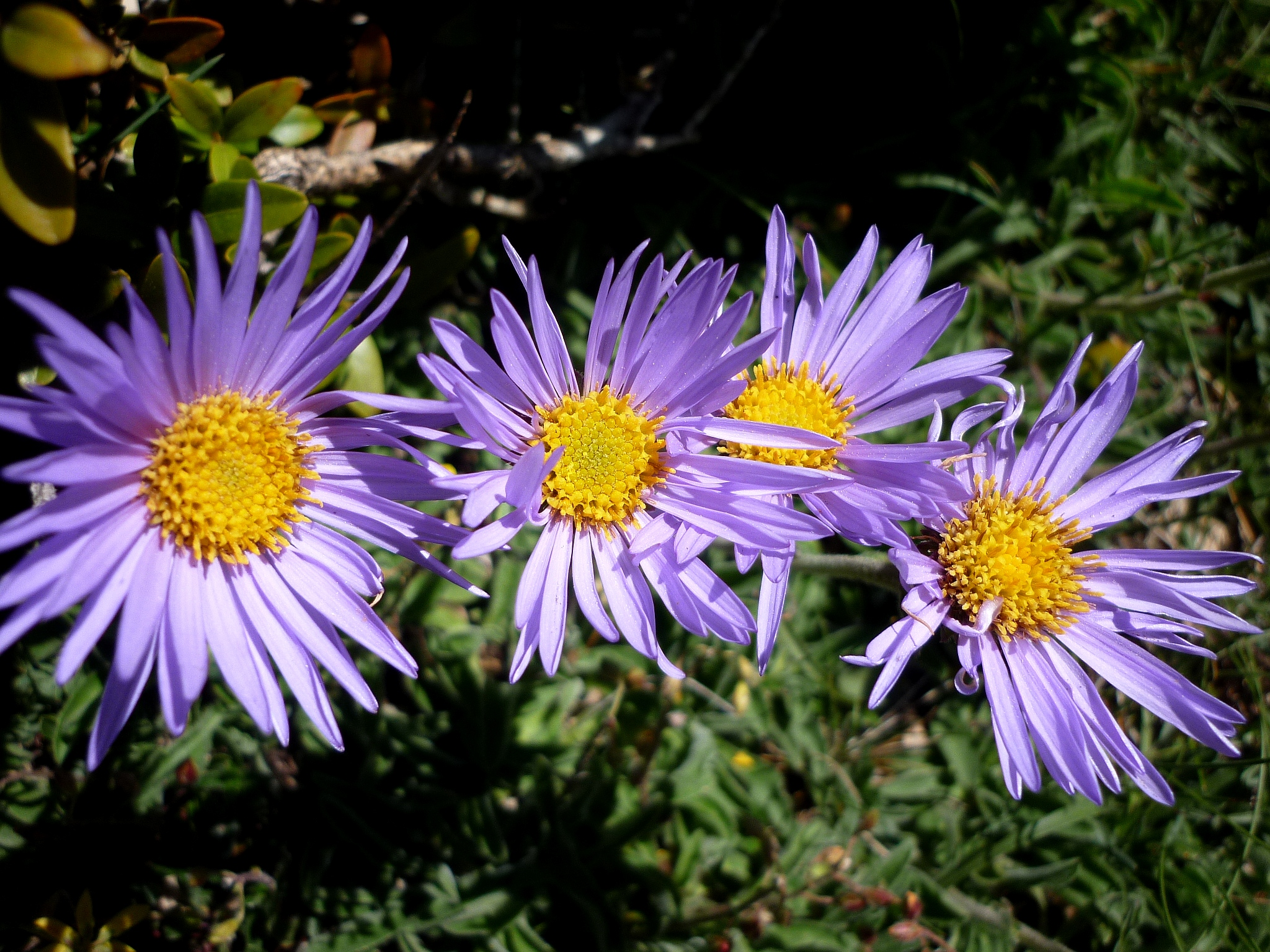 Aster alpinus. Near Roca de la Pena, in l'Alzina d'Alinyà (Alt Urgell-Catalunya). To 1.790 m. altitude